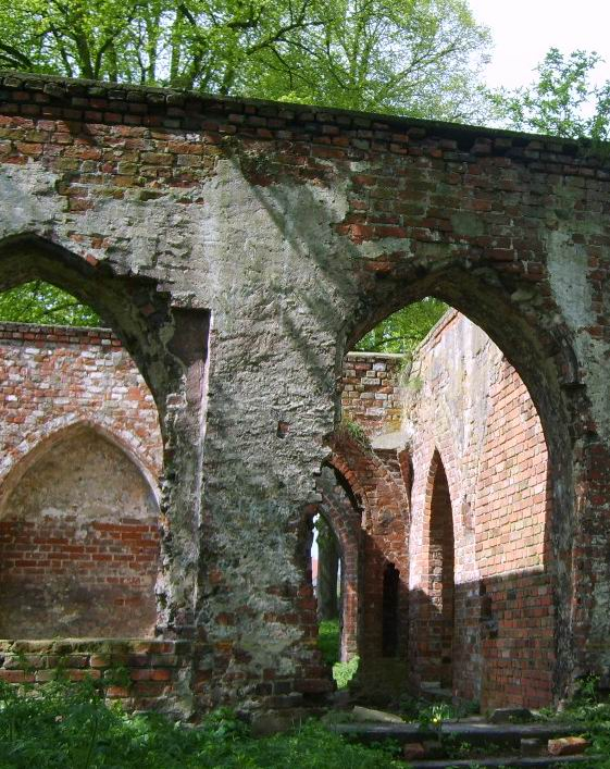 Fragment of ruin of Augustinians' cloister in Police-Jasienica (14th century), Pomerania, Poland / Fragment ruin klasztoru Augustianów w Policach - Jasienicy